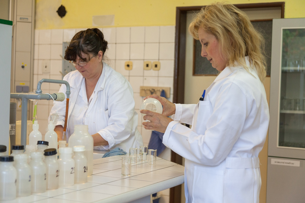 Úpravna vody Nová Ves u Frýdlantu nad Ostravicí - laboratoř kvality vody, autor: Boris Renner